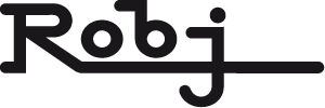 Logotype of French Ceramic firm Robj, Paris